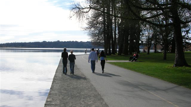 Green Lake Park, popular among runners, contains a 2.7-mile (4.3 km) trail circling the lake. Green Lake (Seattle) park trail.